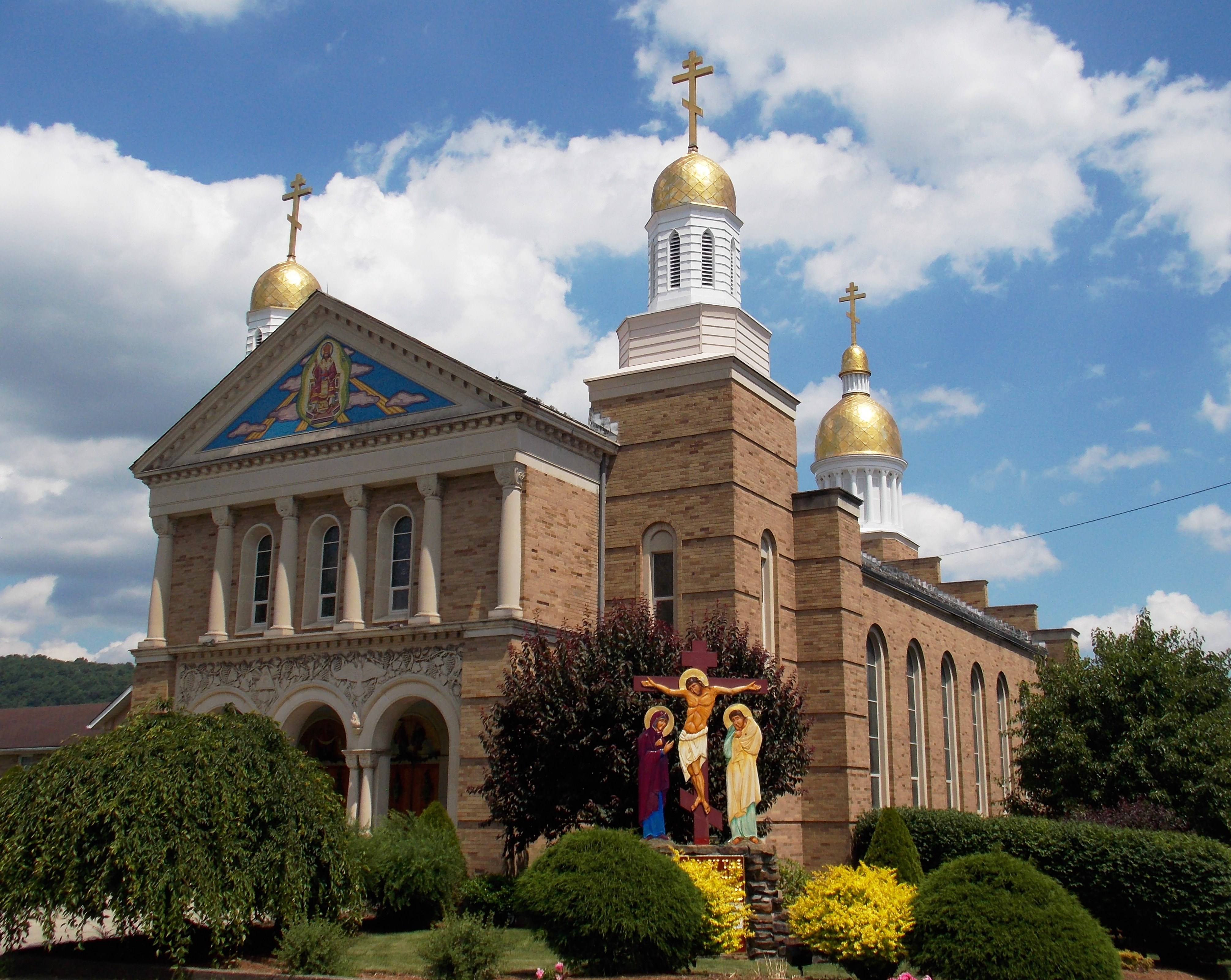 Christ the Saviour Carpatho-Russian Orthodox Cathedral in Johnstown, Pennsylvania.